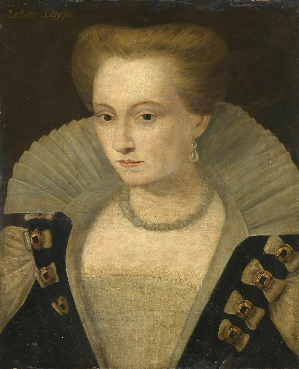 Portrait of Louise of Lorraine, oil on wood, preserved in Paris, Musée du Louvre